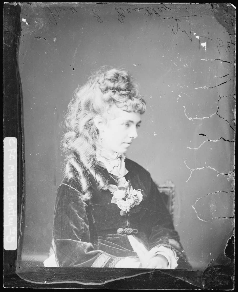 Portrait of Emily Florence Cazneau (née Bentley), Sydney, ca. 1870s by Pierce Mott Cazneau